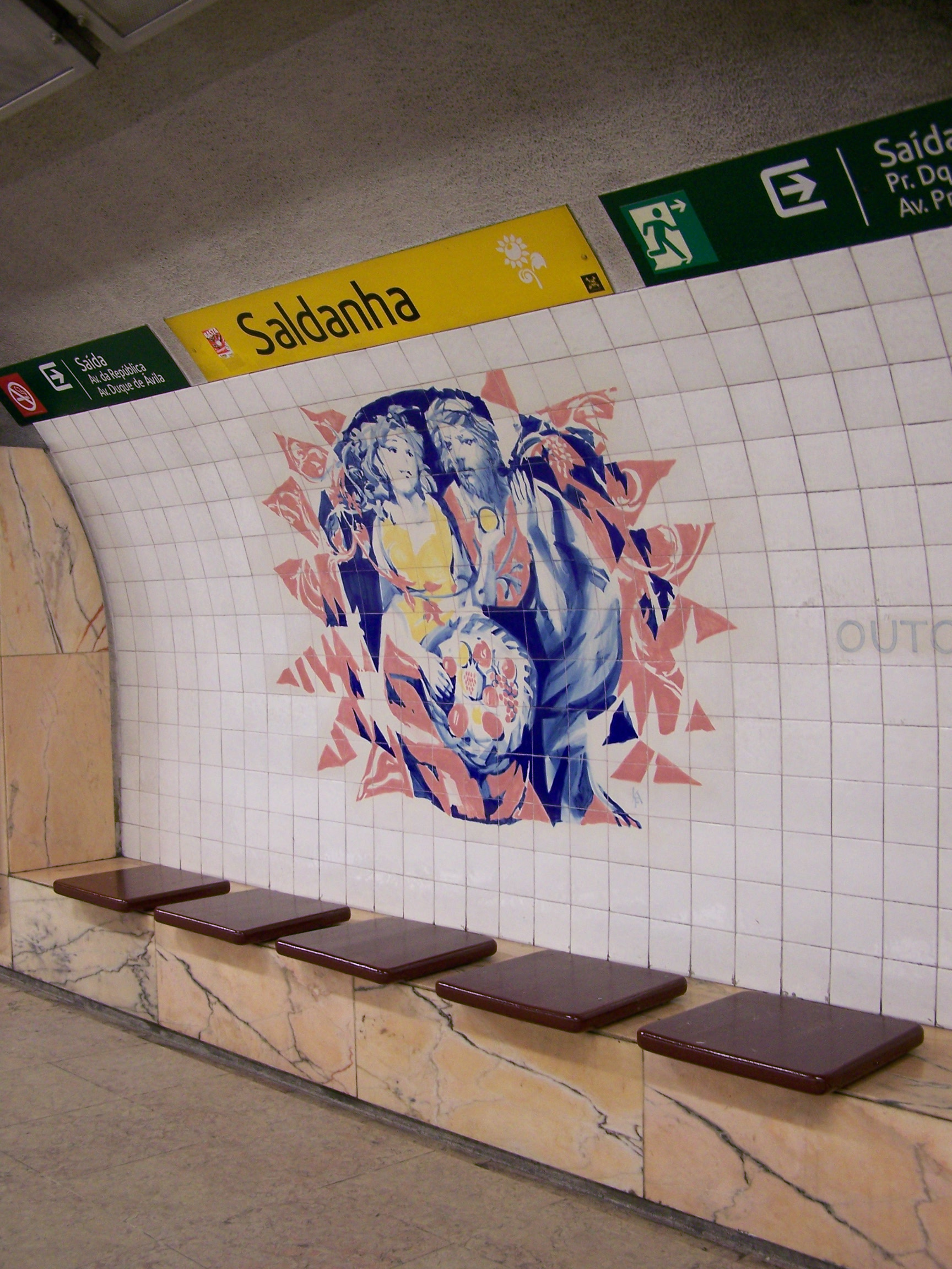 art at Lisbon's metro station Saldanha, Portugal